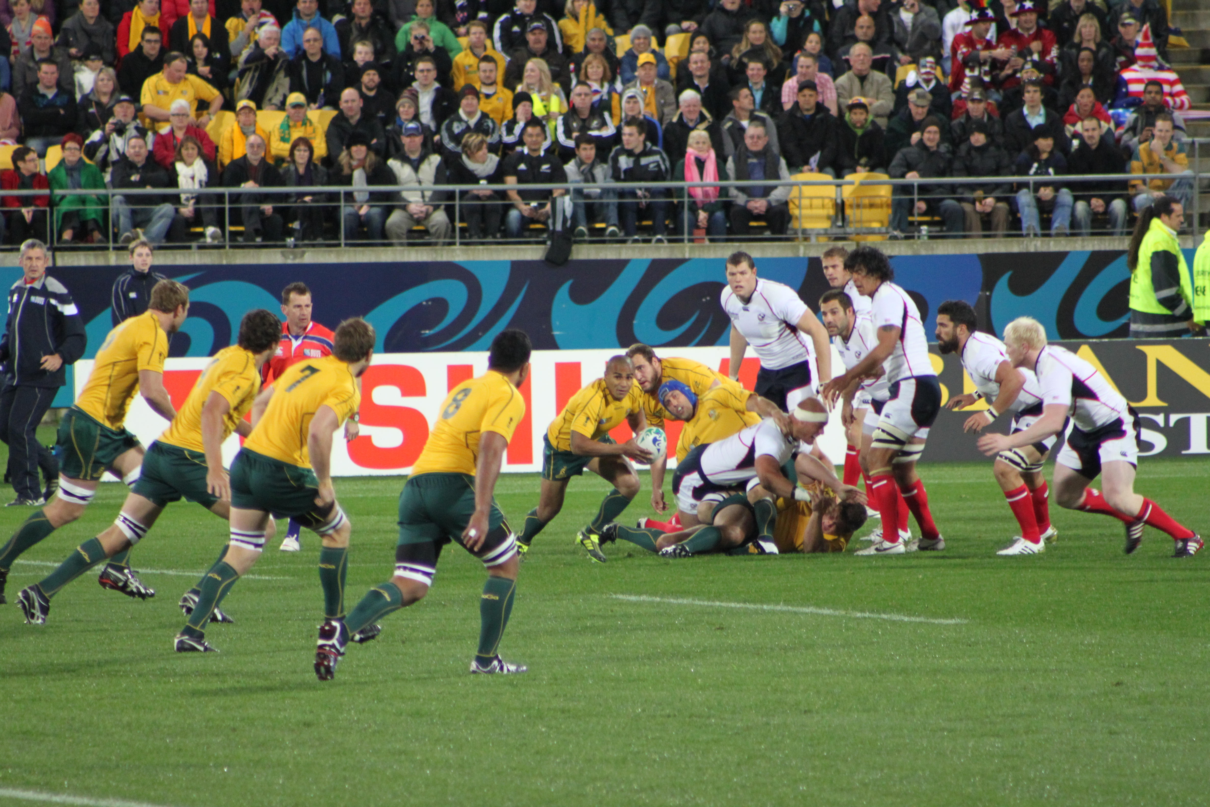 Match between Australia and USA during 2011 Rugby World Cup in New Zealand.